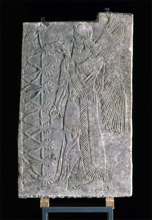 Assyrian relief (inv.no. AS1) from the North-West palace in Nimrud (c. 883-859 BC.). On display at the The National Museum of Denmark, Dept. of Classical and Near Eastern Antiquities.